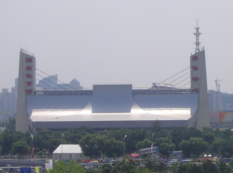 The indoor arena of the Olympic Sports Center Gymnasium.